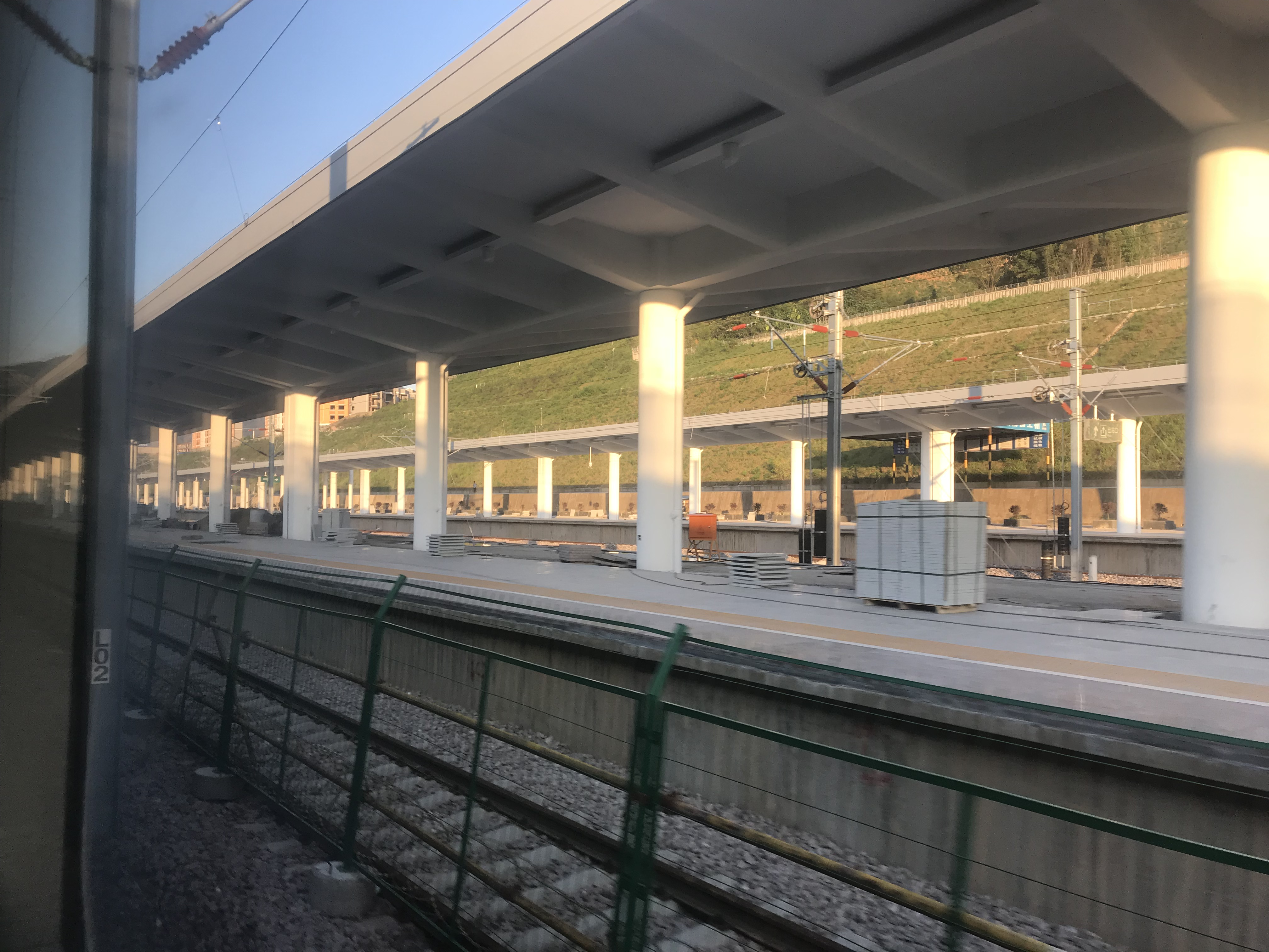 201806 Platform of Nanpingxi Station2